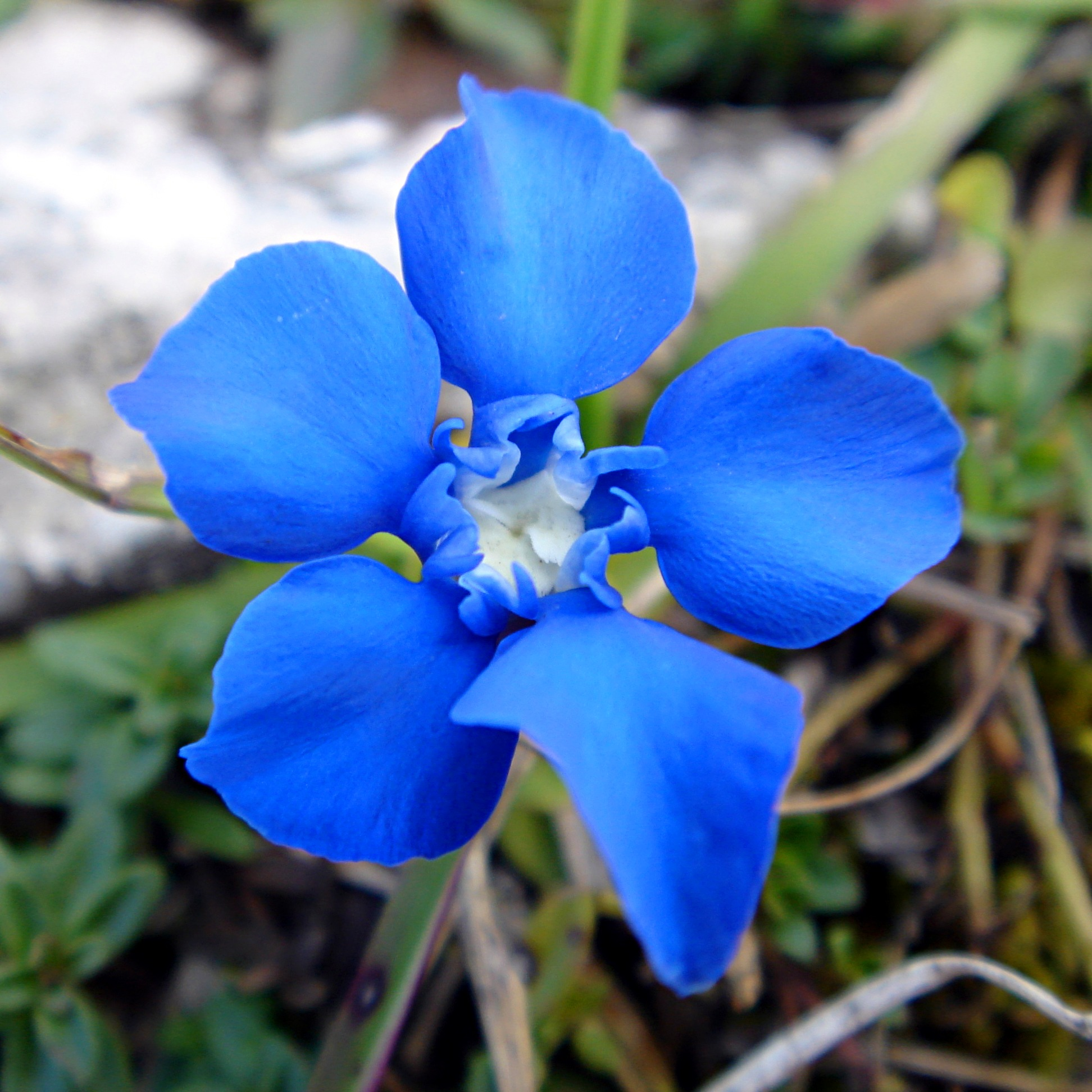 A Spring Gentian (Gentiana verna) in late October.